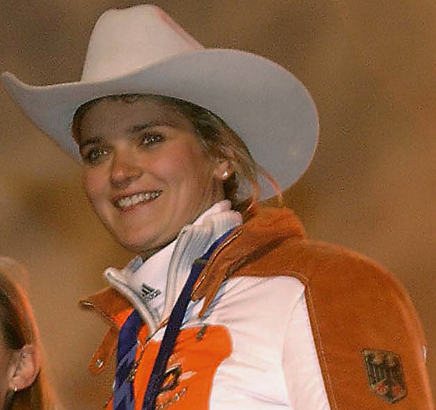 The first winners in the 2002 OLYMPIC WINTER GAMES debut for women's bobsledding. (Counterclockwise) Germany's Sandra Prokoff and Ulrike Holzner, silver medallist; Germany's Nicole Herschmann, Susi-Lisa Erdmann, bronze medallists; and USA's World Class Athlete Specialist Jill Bakken, USA, and Vonetta Flowers, gold medallist; smile for the crowd moment after being presented their medals for the women's two-man bobsled during the 2002 WINTER OLYMPIC GAMES.